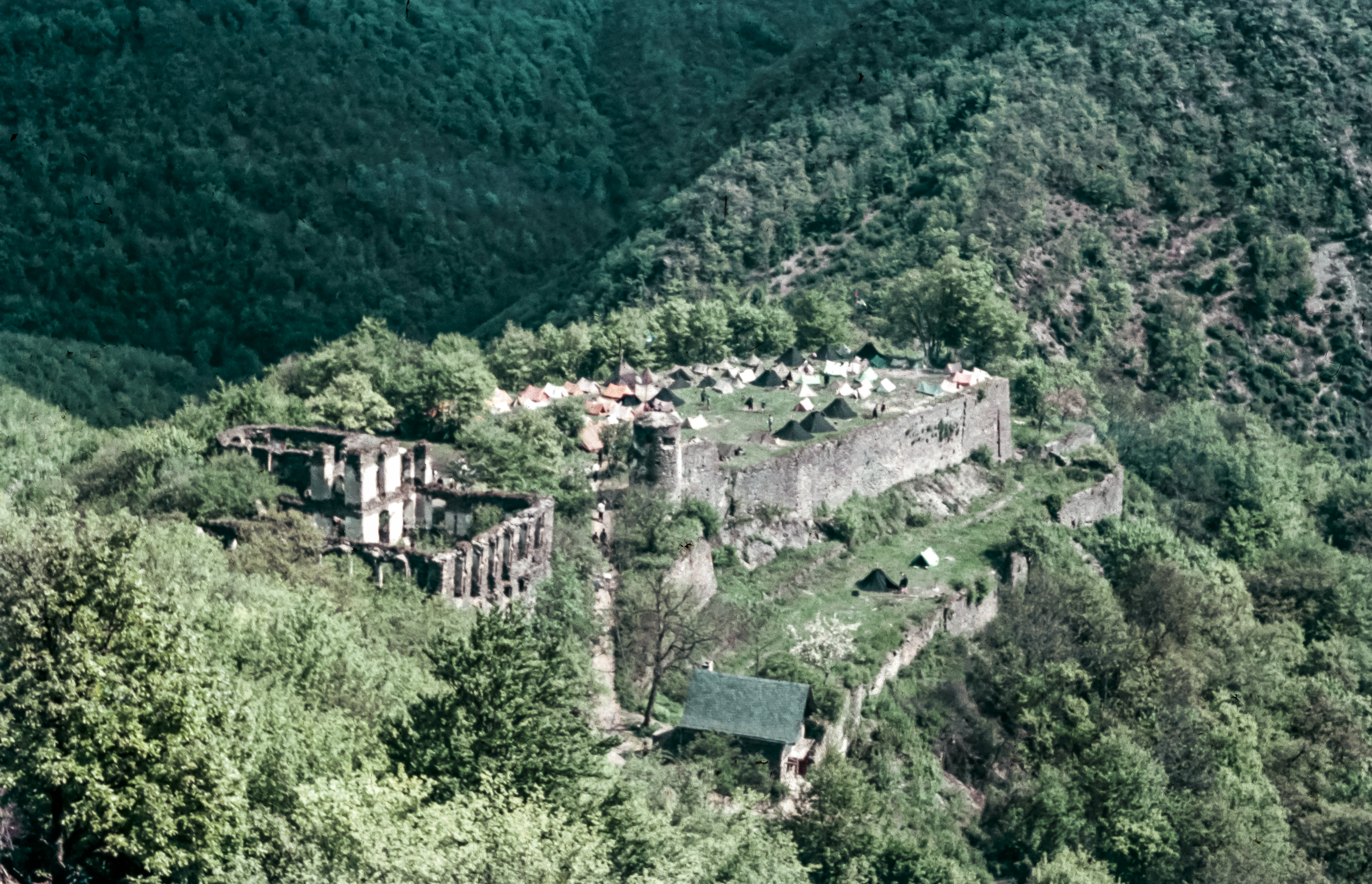 Germany: Tents on the bastion of Castle Waldeck during the annual meeting of the Nerother Wandervogel in the 1950's